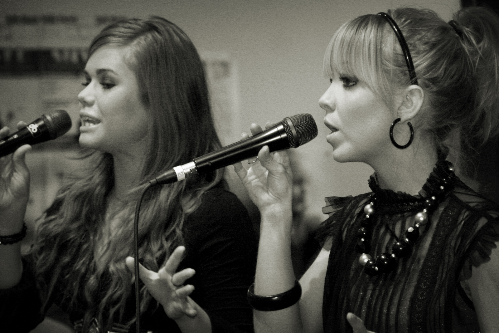 Two of the girls from the Icelandic girl band Nylon.